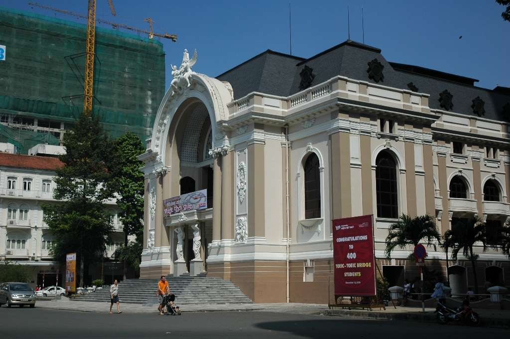 Opera House of Ho Chi Minh City